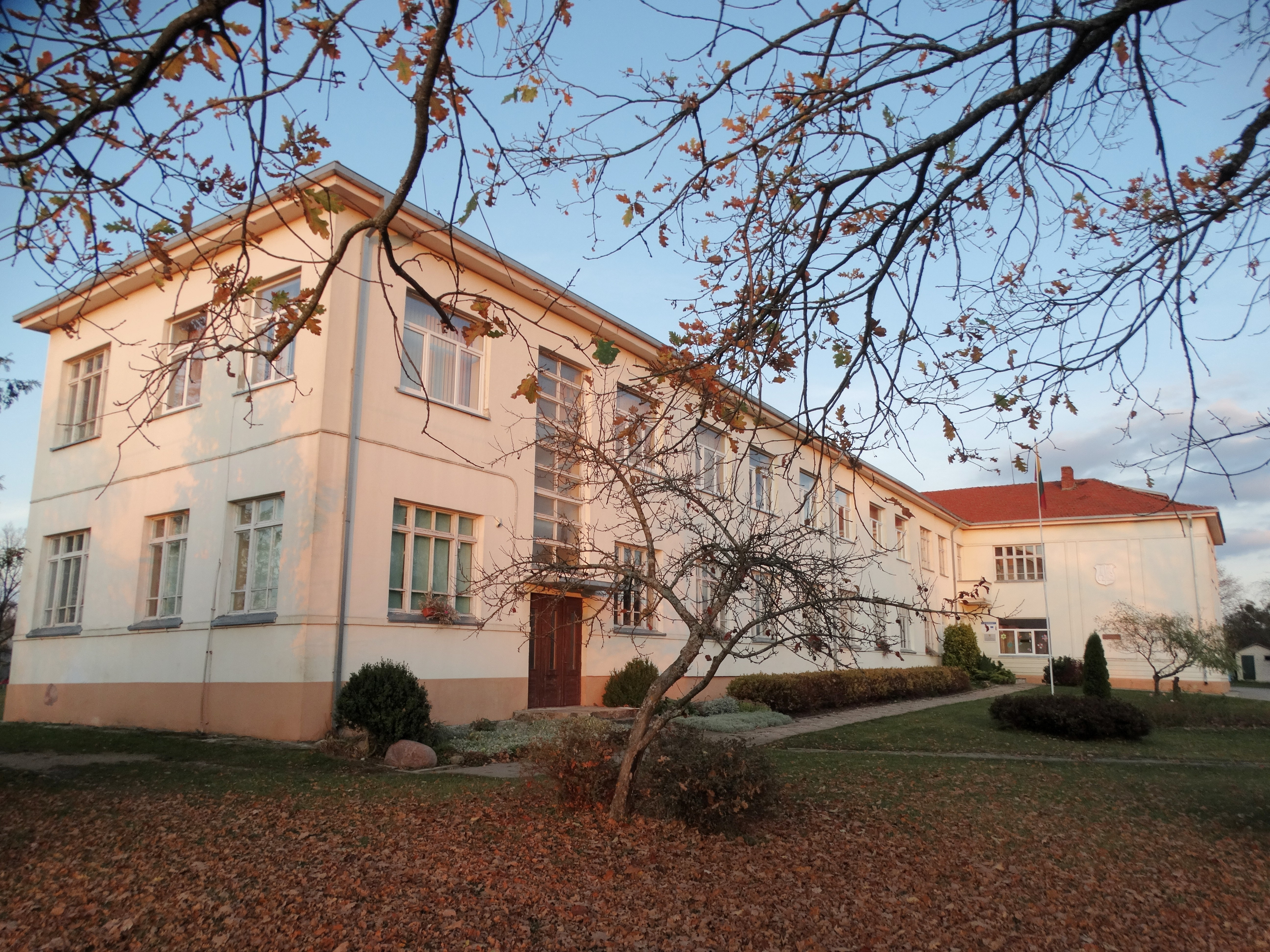 School, Punia, Alytus district, Lithuania